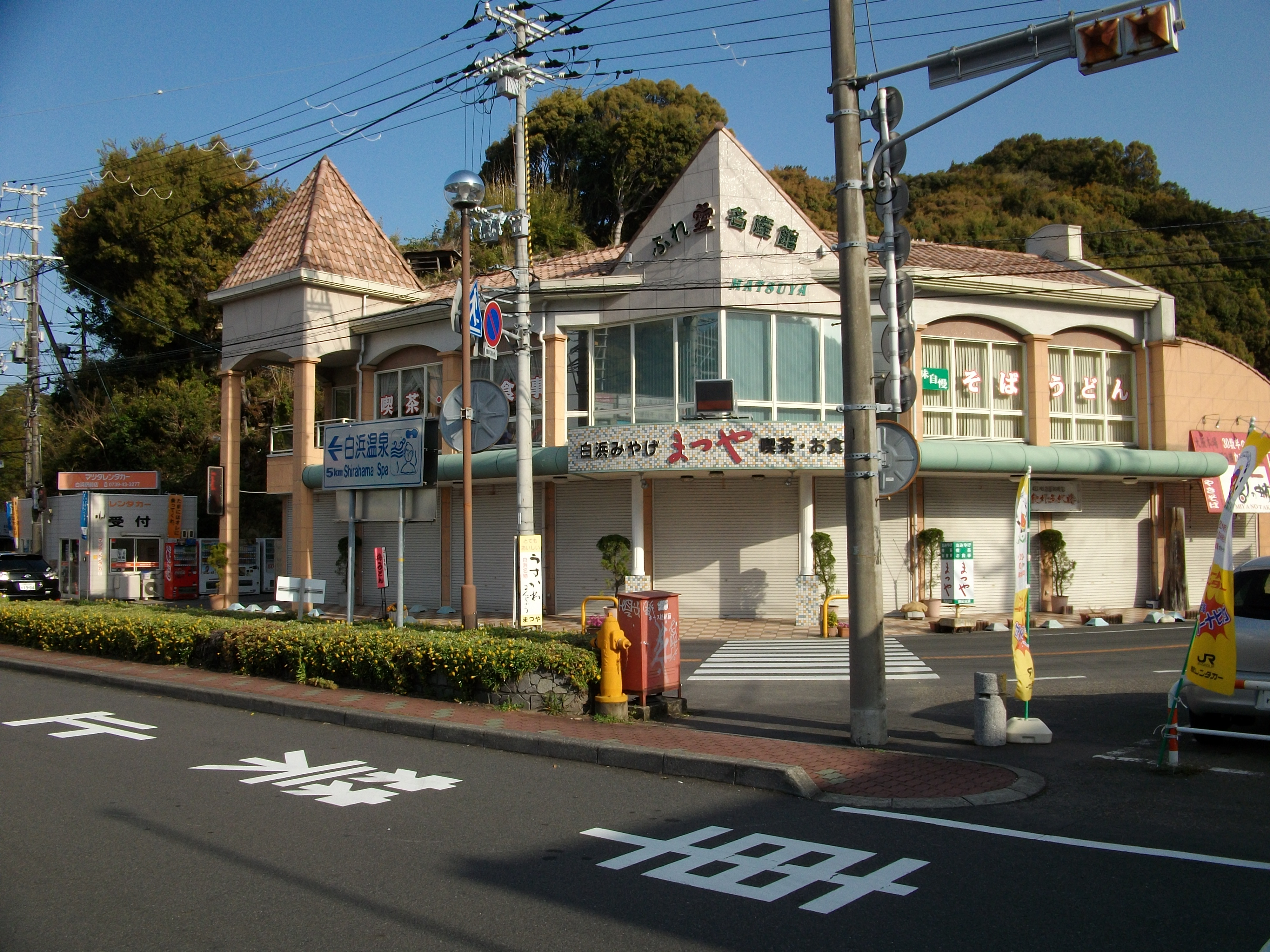 Souvenir shop "Matsuya" in front of Shirahama Station, in Shirahama, Wakayama, Japan